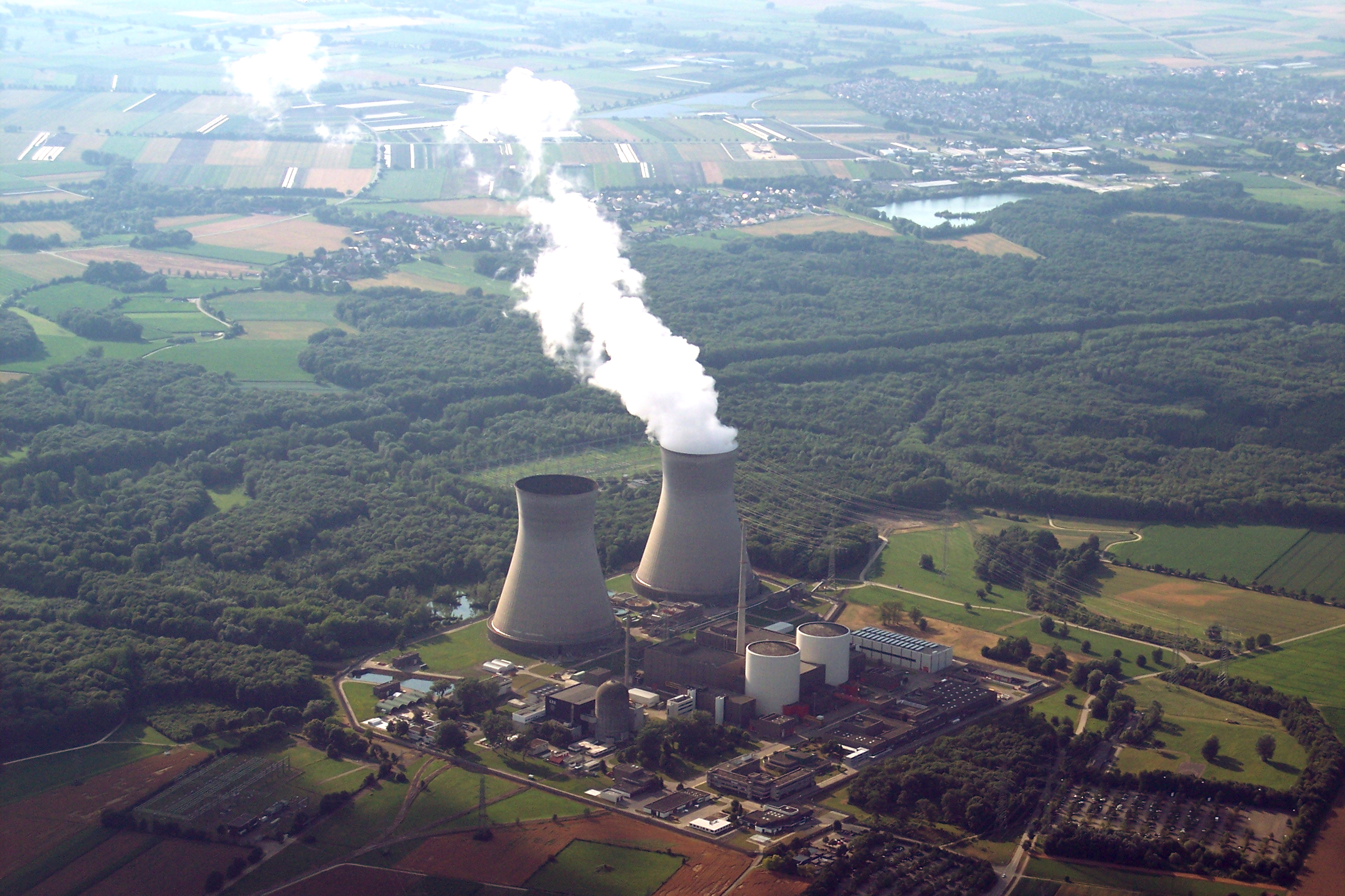 Airphoto nuclear power plant Gundremmingen